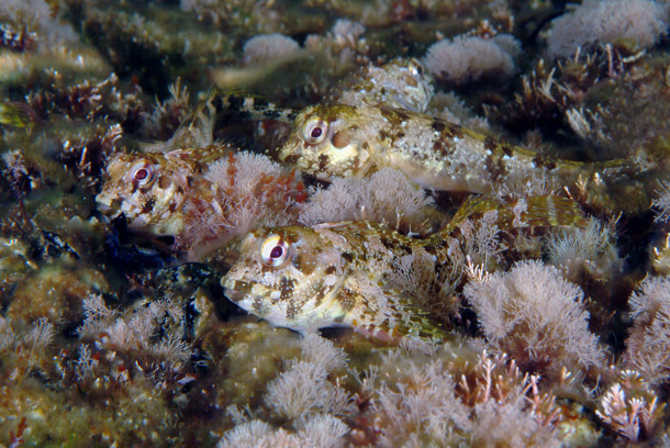 3 specimens of Paralipophrys trigloides photographed by the Tuscany coasts (Italy). Photo by Stefano Guerrieri